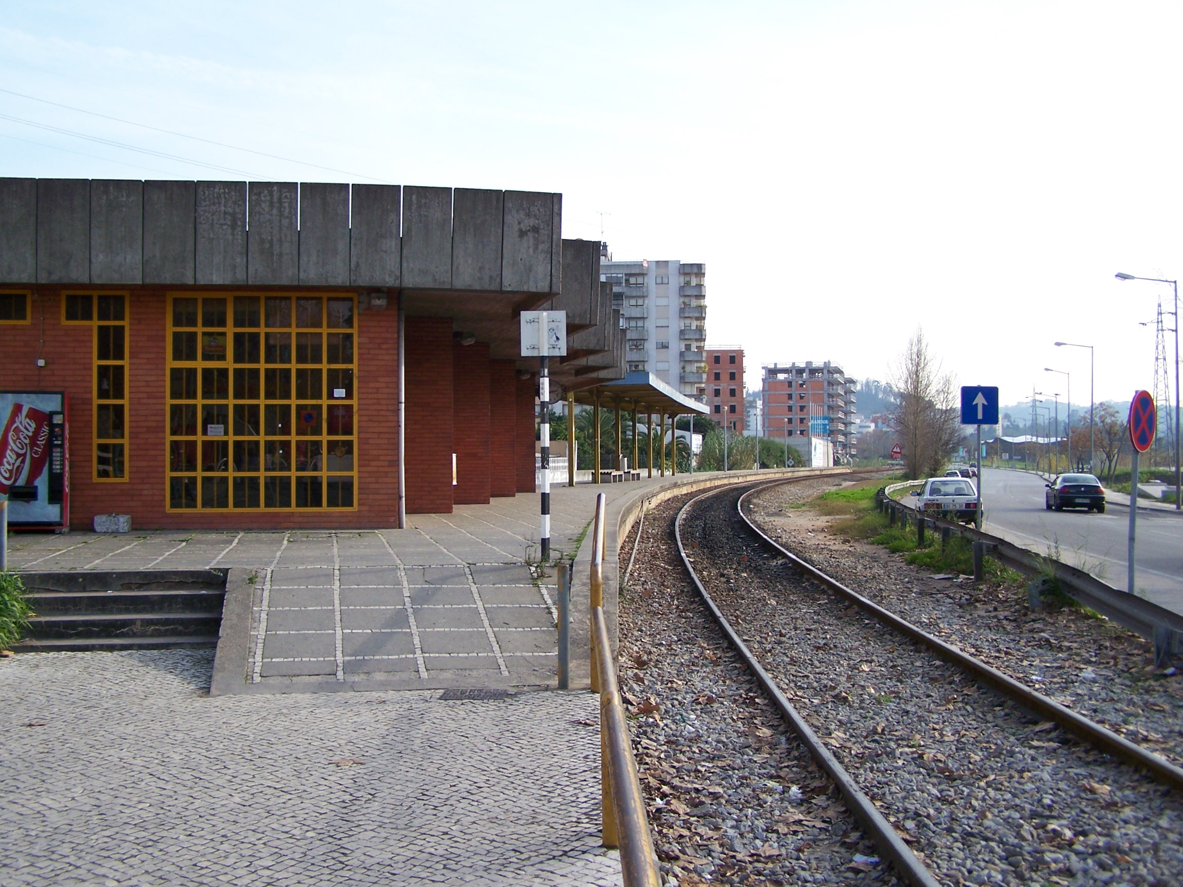 Station "Coimbra-Parque" of the Ramal de Lousã, Coimbra, Portugal